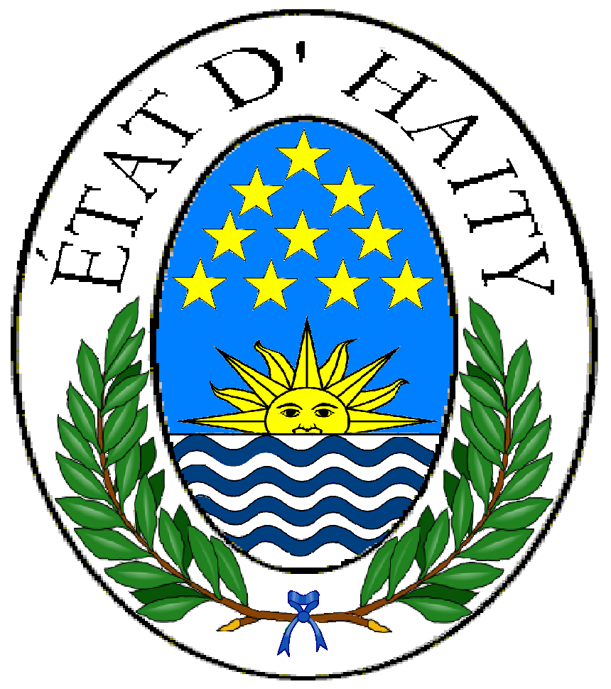 In 1807 a coat of arms was adopted. It was oval and showed eleven stars and a sun with a human face rising from the sea. The coat of arms was also placed on the new seal. This was oval and showed the arms surrounded by the legend: ETAT D’HAITY and two branches of olives.